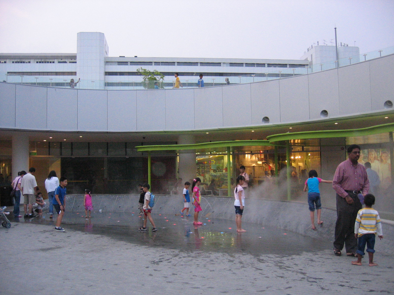 VivoCity, Singapore.